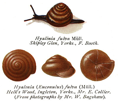 John William Taylor Monograph of the land & freshwater Mollusca of the British isles. By John W. Taylor ... with the assistance of W. Denison Roebuck, F.L.S., the late Charles Ashford, and other well-known conchologists ... Leeds,Taylor brothers,1894-19 Euconulus fulvus